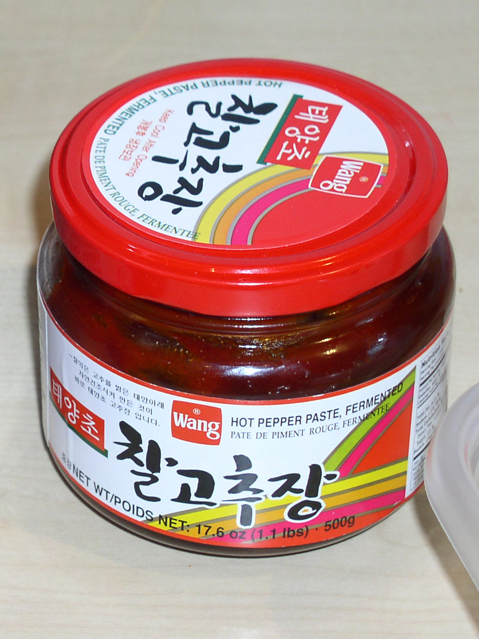 Gochujang, a Korean condiment made with chili pepper powder, doenjang (Korean soybean paste) glutinous rice flour.